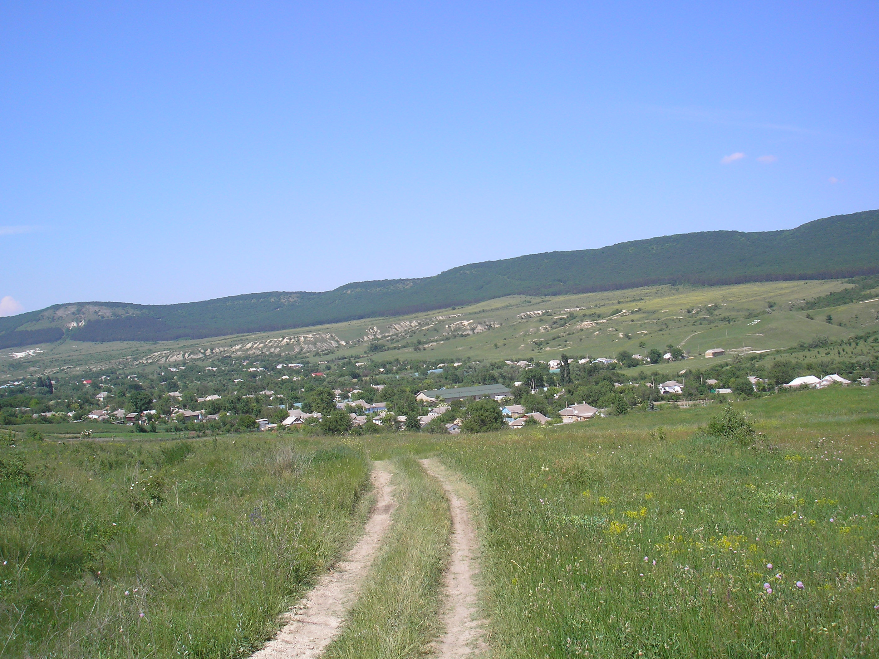 Village Lechebnoe Belogorsky region Crimea.